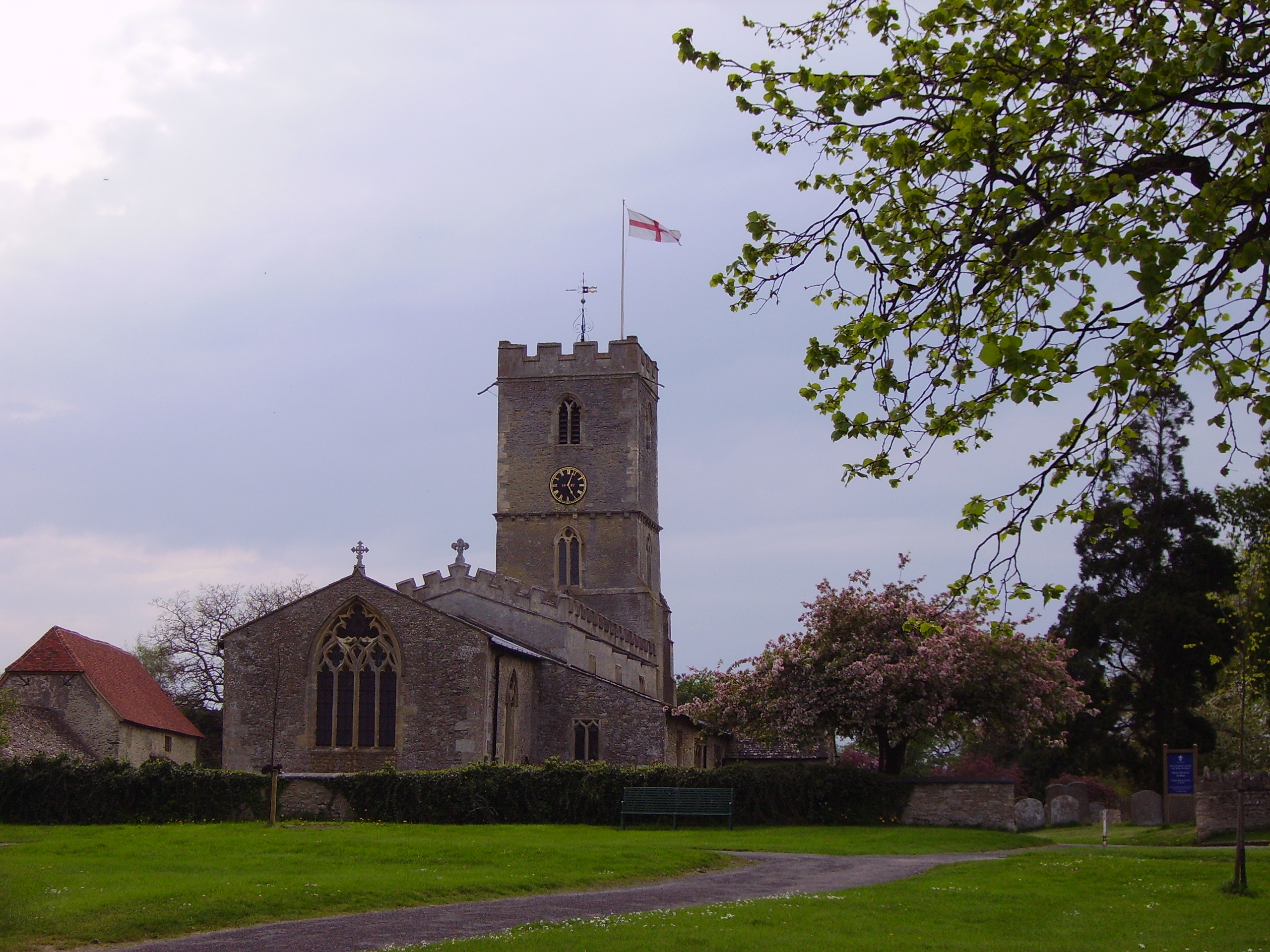 Church of England parish church of St Denys, Stanford in the Vale, Oxfordshire (formerly Berkshire)